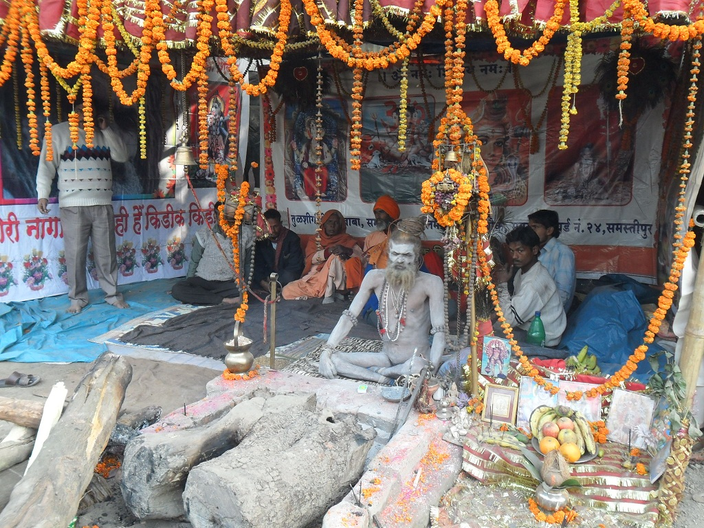 A sadhu in Kolkata (Calcutta) , India